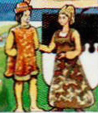 John I of Monaco and his wife